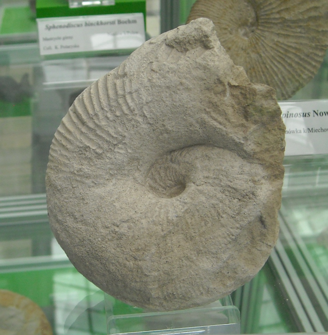 Acanthoscaphites tridens - species of ammonite from Maastrichtian (fossil collected in Poland)